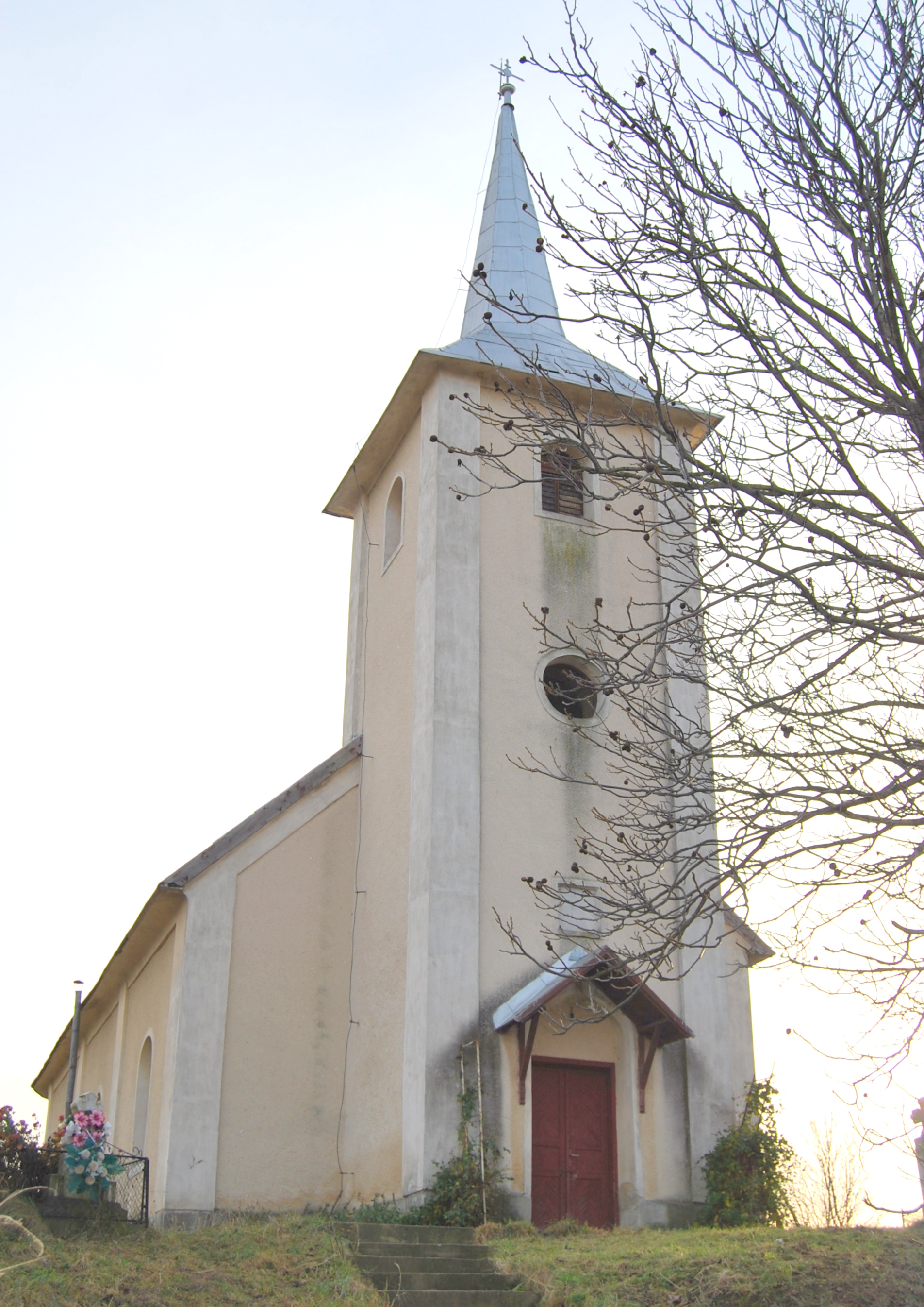 Church in Şerel, Hunedoara county, Romania